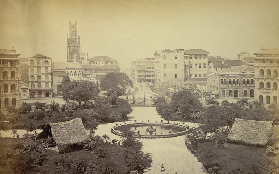 Photograph of Elphinstone Circle in Bombay from the 'Lee-Warner Collection: 'Bombay Presidency. William Lee Warner C.S.' taken by an unknown photographer in the 1870s. Elphinstone Circle was laid out in 1869 on the site of the old Bombay Green in the Fort area of the city. The buildings were designed by James Scott as part of the redevelopment of Bombay which began under the Governorship of Sir Bartle Frere in the 1860s. Following Independence, the Circle was renamed Horniman Circle. This name refers to Benjamin Horniman, an English journalist. This view shows the gardens and fountain in the centre of the Circle.